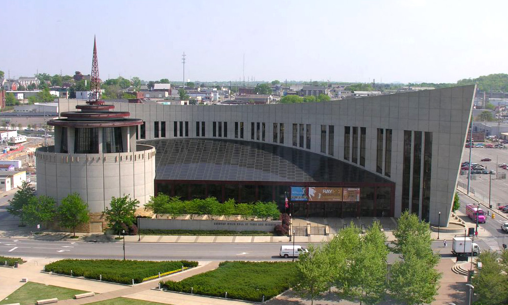 The Country Music Hall of Fame and Museum in Nashville, Tennessee